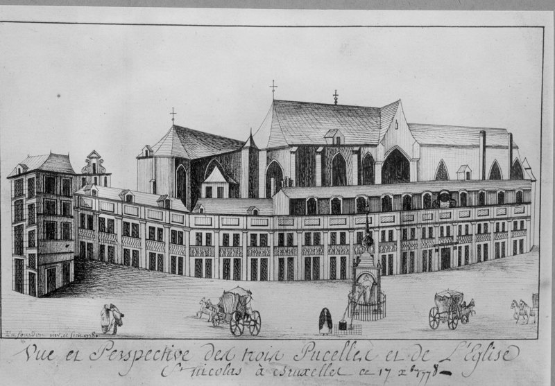 St Nicholas Church and Three Graces Fountain, Brussels